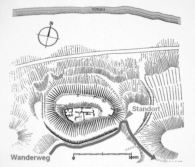 Alte Burg ("Old castle") near Neuburg an der Donau (Landkreis Neuburg-Schrobenhausen, Upper Bavaria, Germany). Ground plan (Information board at the moat)